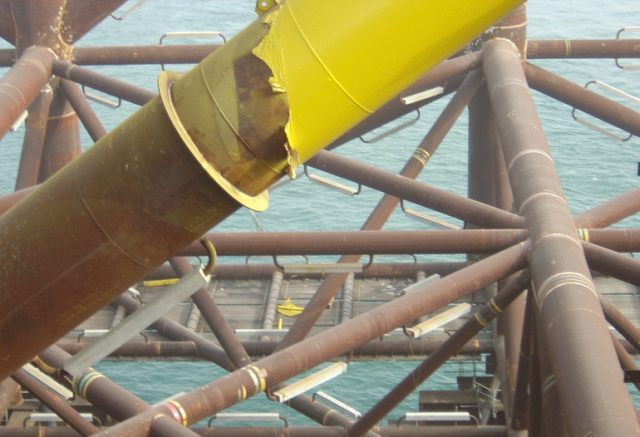 Sacrificial anodes (light colored rectangular handle-shaped objects) mounted "on the fly" for corrosion protection of a metal jacket structure